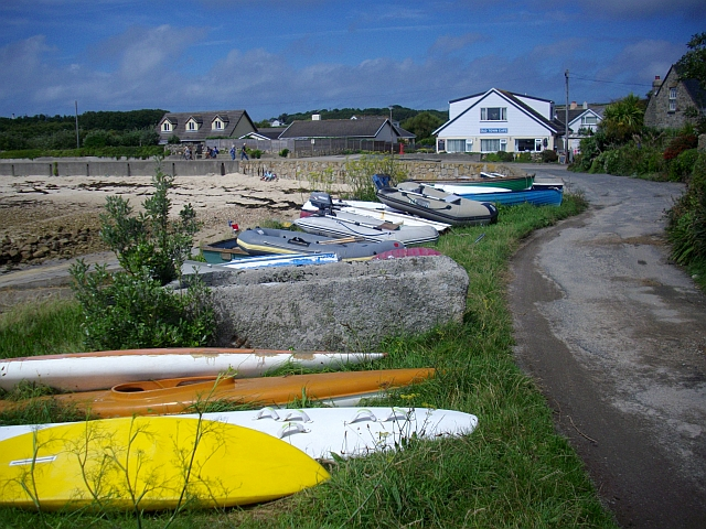 Fish salting trough, Old Town harbour, St. Mary's The old amongst the new. Once the most important harbour on the island, later a busy fishing port, hence the stone salting trough for the preservation of the food. Now as can be seen a place for leisure with kayaks, dinghies and small boats lined up. The white building is the superb Old Town Cafe.